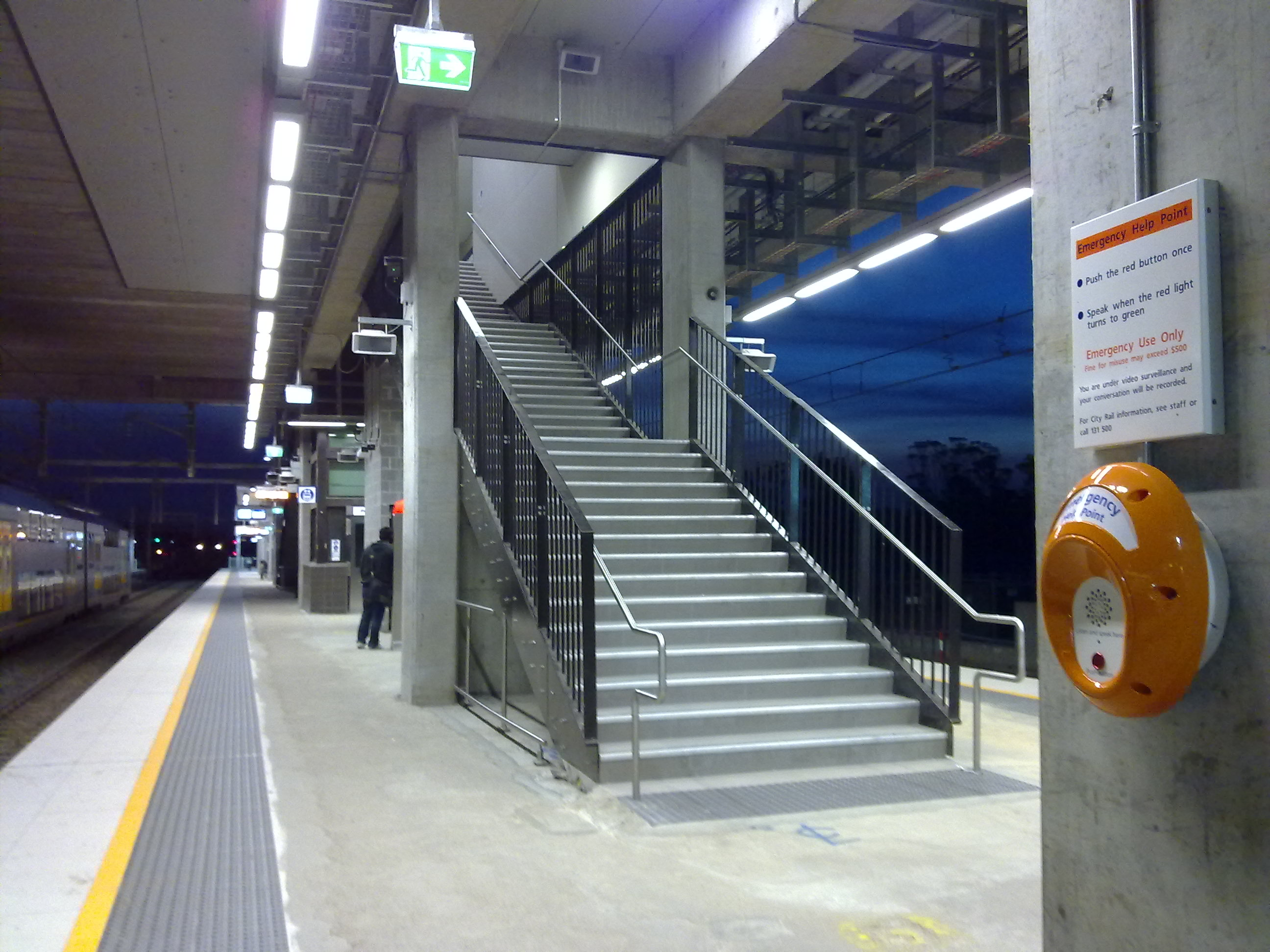 Recently upgraded facilities at Glenfield train station in Sydney, NSW, Australia. Overlooking platforms 1 and 2 in southerly direction. Double stairways lead to an overhead concourse.